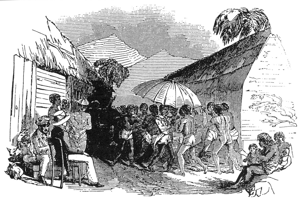 Joseph Merrick at an Isubu funeral in Cameroon, 1845. Merrick was a Jamaican native who became one of the first Christian missionaries to Cameroon.